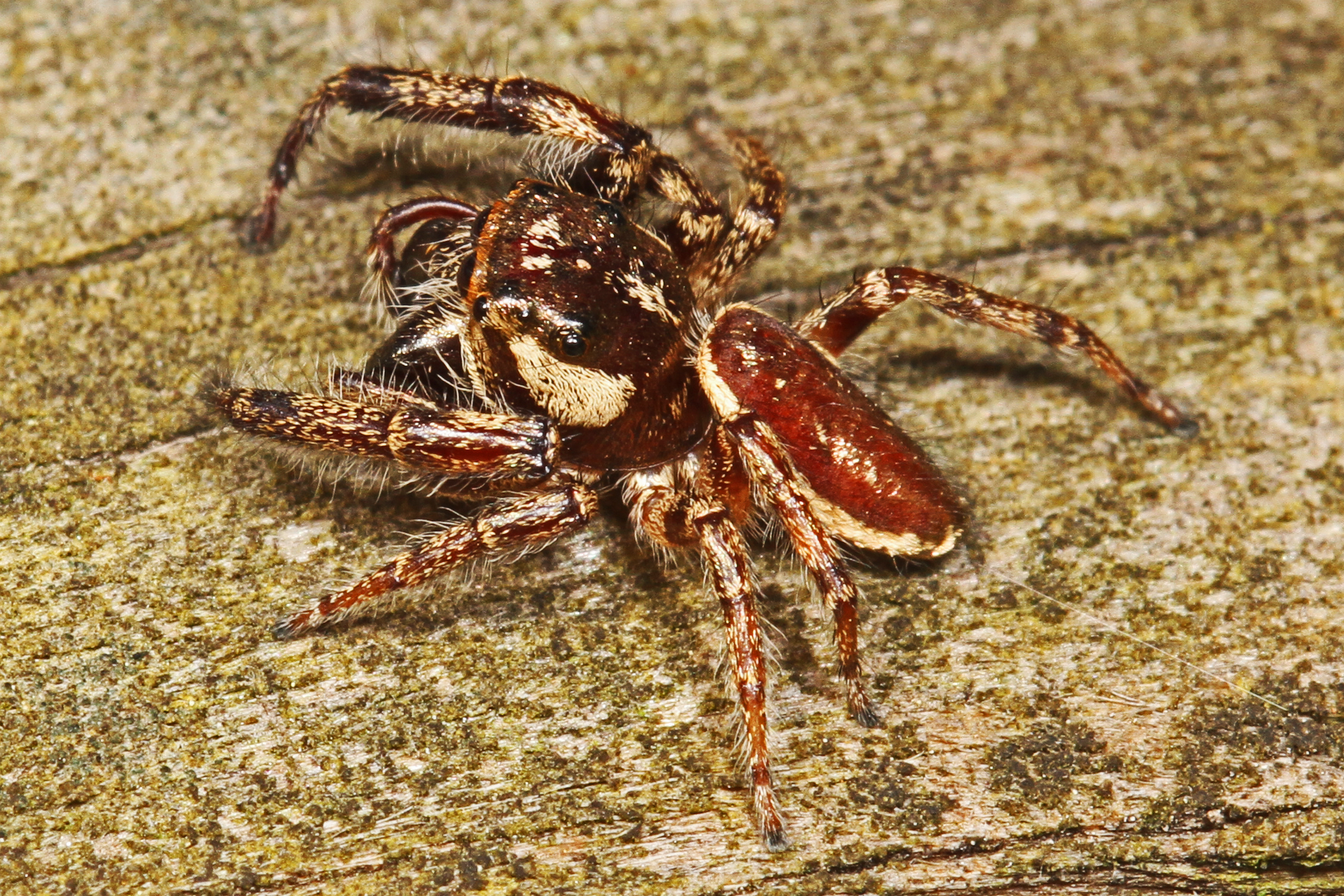 Bronze Jumper - Eris militaris, Leesylvania State Park, Woodbridge, Virginia